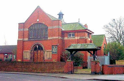 Airedale Methodist Church, off Fryston Road, Airedale.